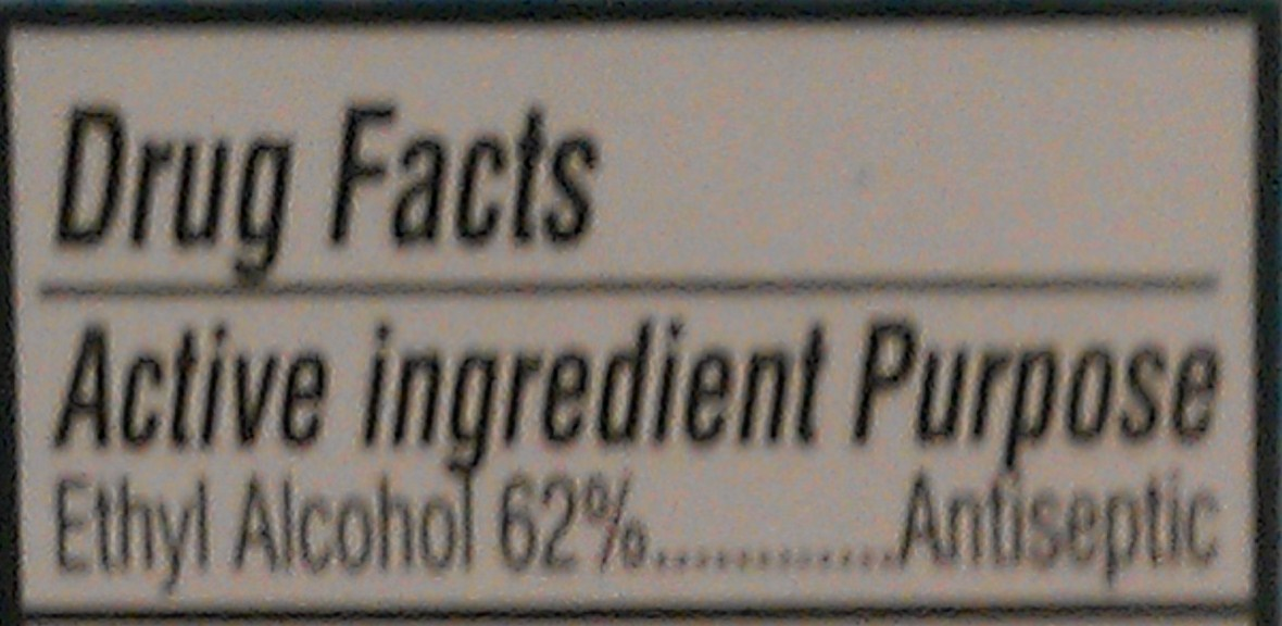 Hand sanitizer contains 62% ethyl alcohol.